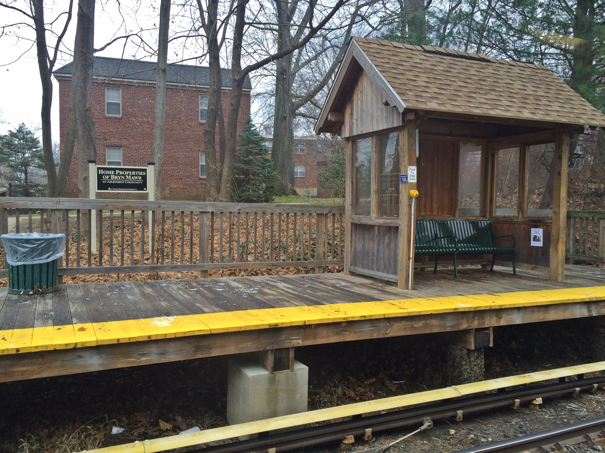 Northbound Platform Roberts Road (NHSL)